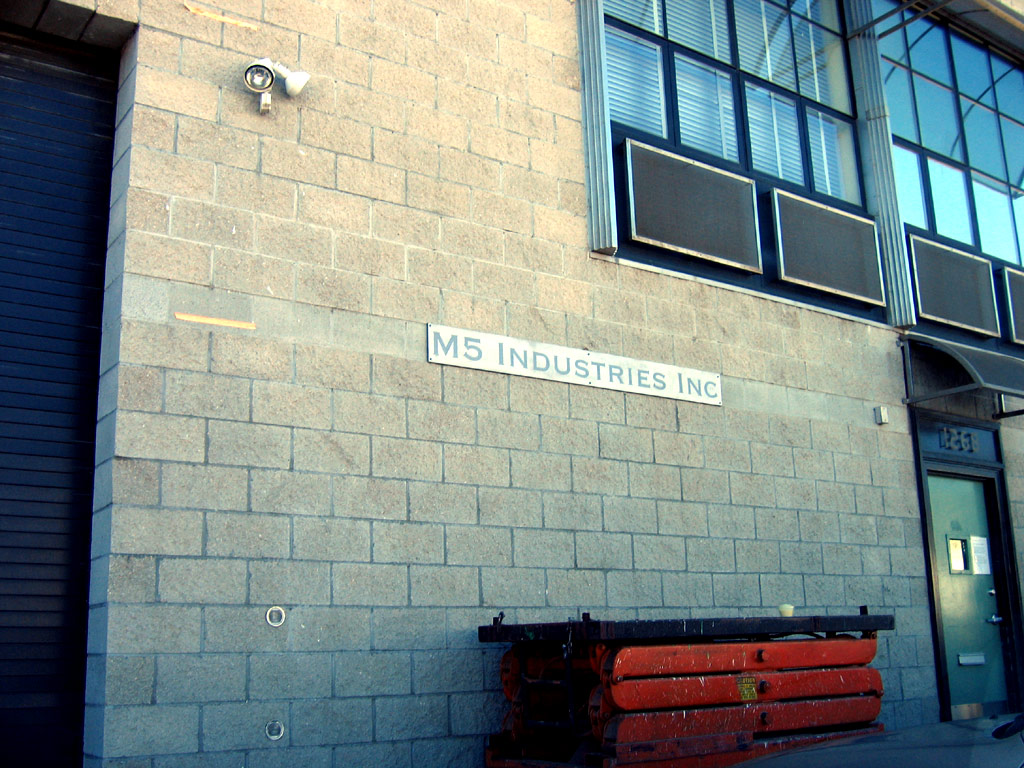 Facilities of M5 Industries, Inc., 1268 Missouri St., San Francisco, CA 94107, Tel. +1 415-550-0688Photo by Matthew McPhersonEquipment: Canon Powershot A95, Adobe Photoshop